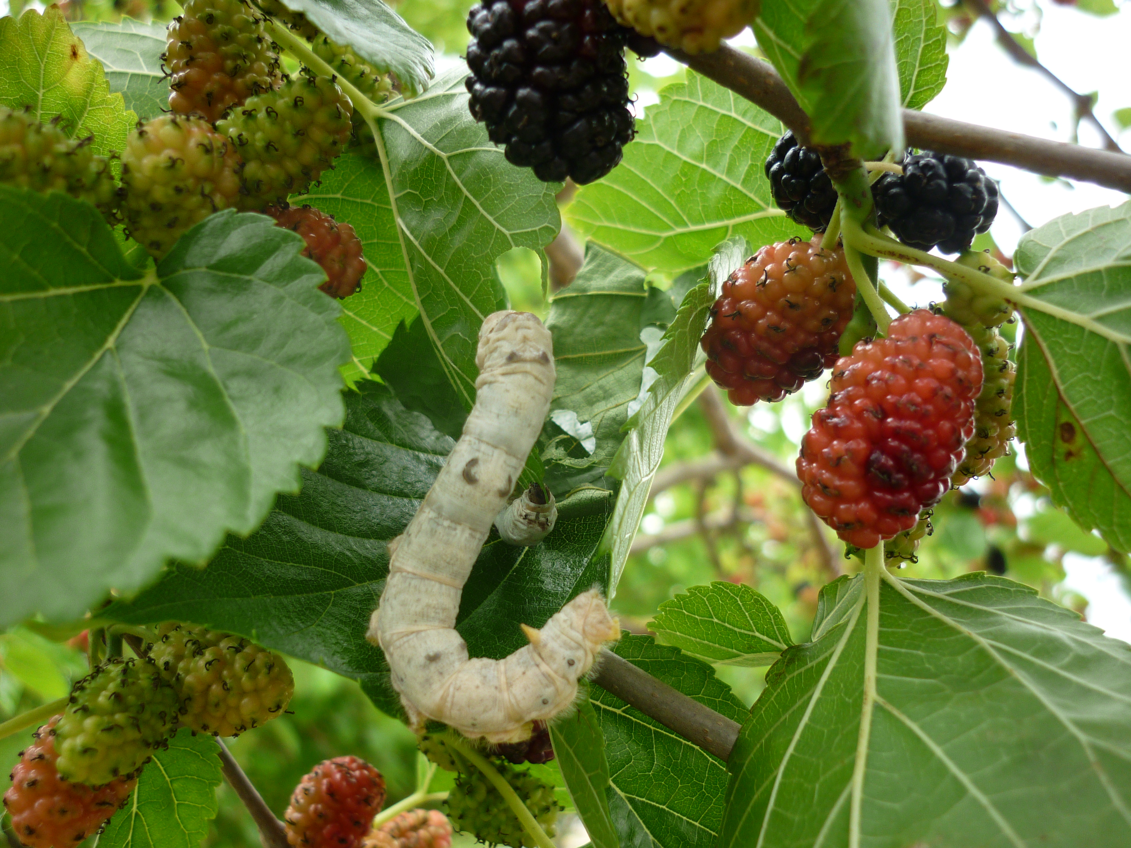 Bombyx mori on Morus nigra plant.